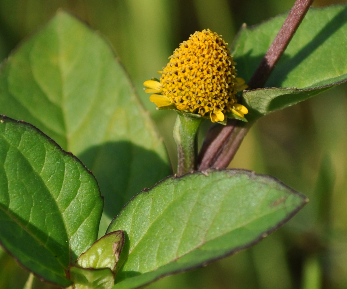 Acmella paniculata, flower head. Sindangbarang, Bogor, West Java.